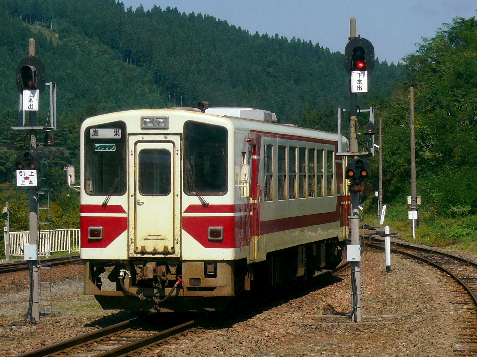 Akita Nairiku Jūkan Railway Type AN-8804 Train(Akita-prefecture,Japan).